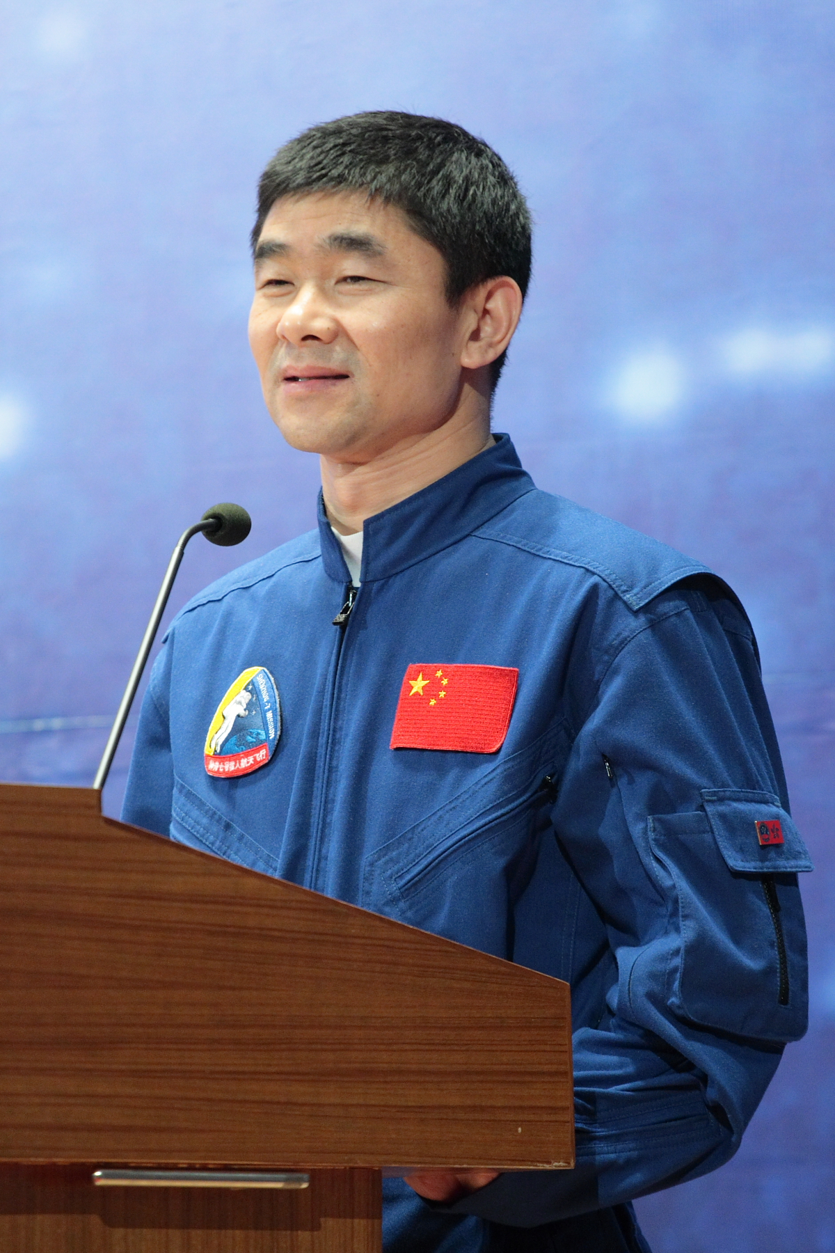 China astronaut Liu Boming. Taken at the Chinese University of Hong Kong, 6th Dec 2008